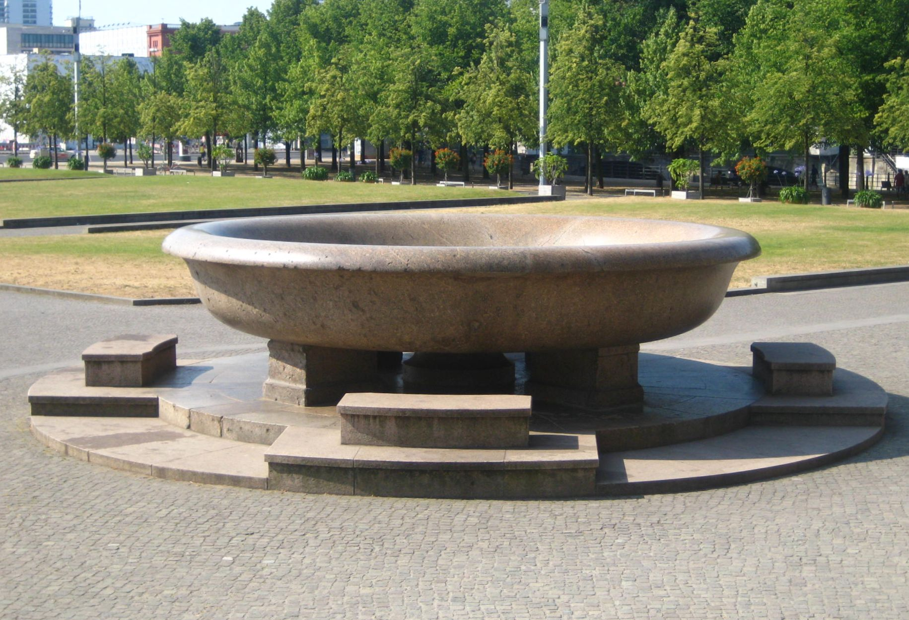 Granite bowl at Lustgarten in front of Altes Museum on Museumsinsel in Berlin-Mitte. It was created from 1827 to 1834 by Christian Cantian and has been designated as a historic landmark.